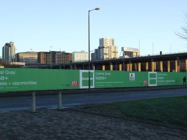 The Kingston Bridge The north side of the bridge. The Hilton hotel is to the left and the Marriott second building to its right.